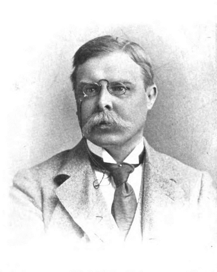 Kuno Francke